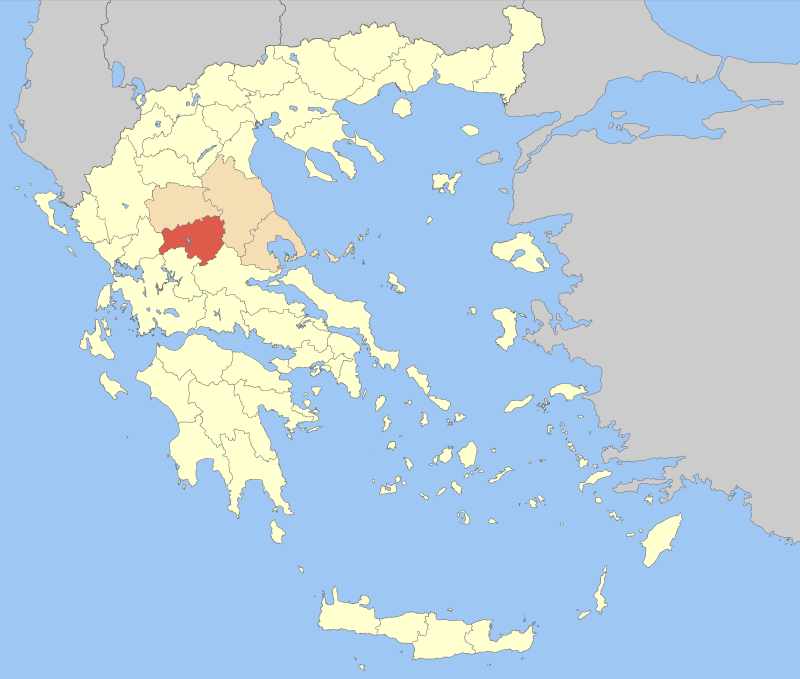 Locator map of Karditsa prefecture (Νομός Καρδίτσας) in Greece